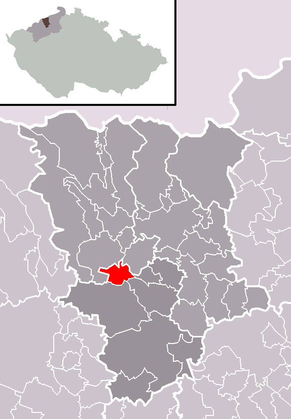 Location of Ledvice town within Teplice District and administrative area of Bílina as a Municipality with Extended Competence.